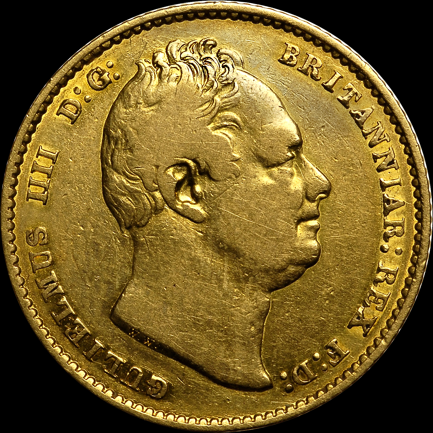 Obverse of the William IV sovereign